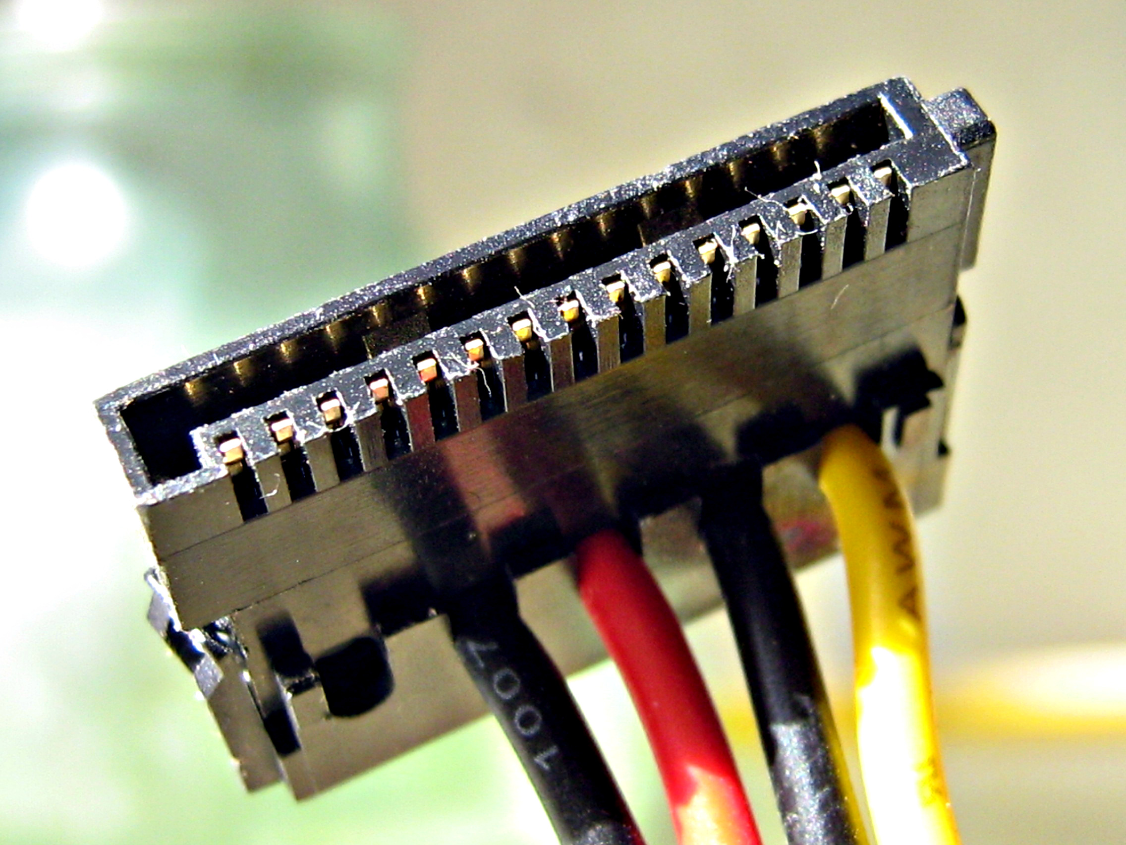 A SATA power cable with 15-pin connector. Date: 29th September 2004 23:05 8 ISO: 400 Photograph: ed g2s • talk